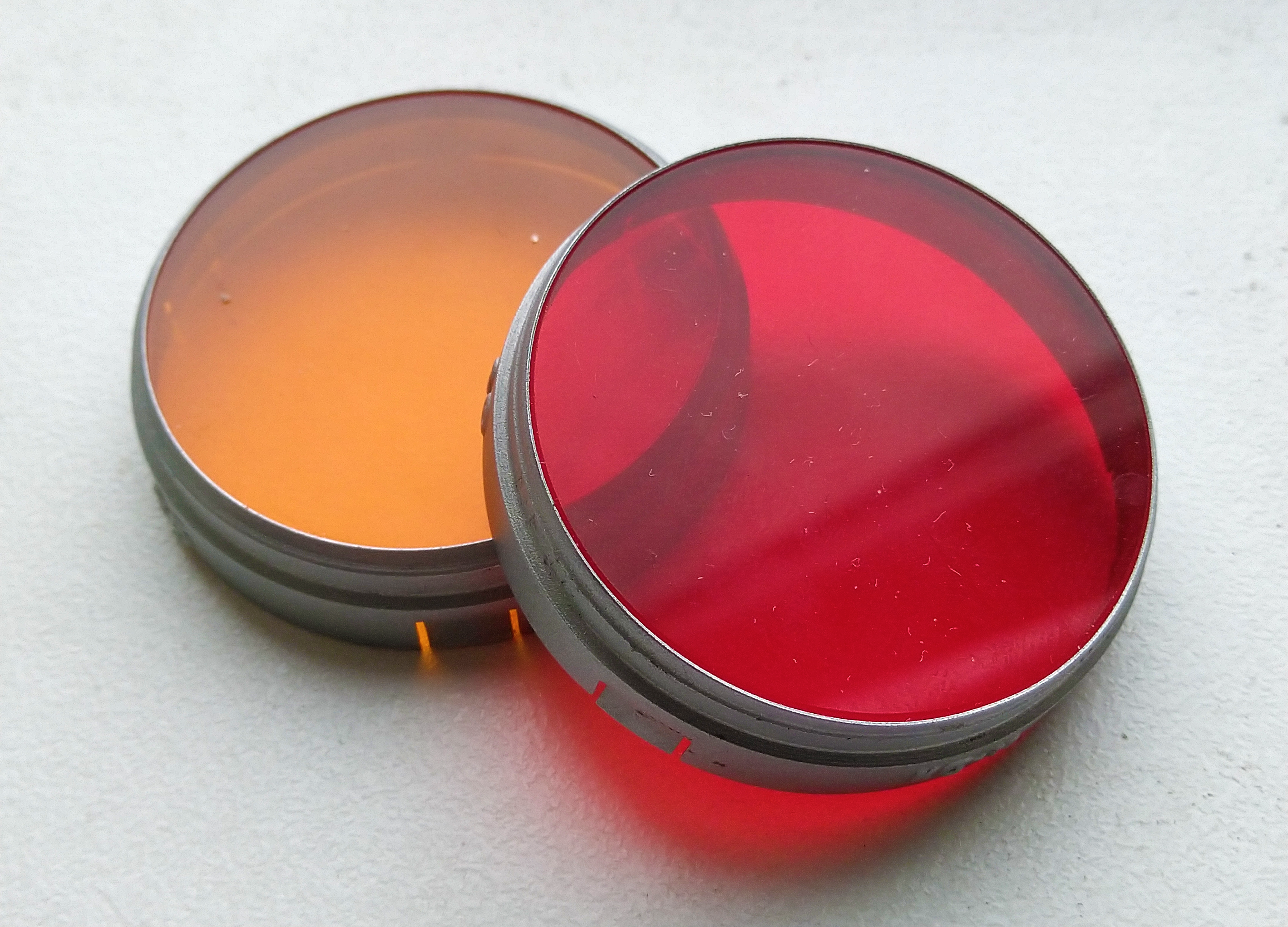 Red and orange color filters stacked on each other.